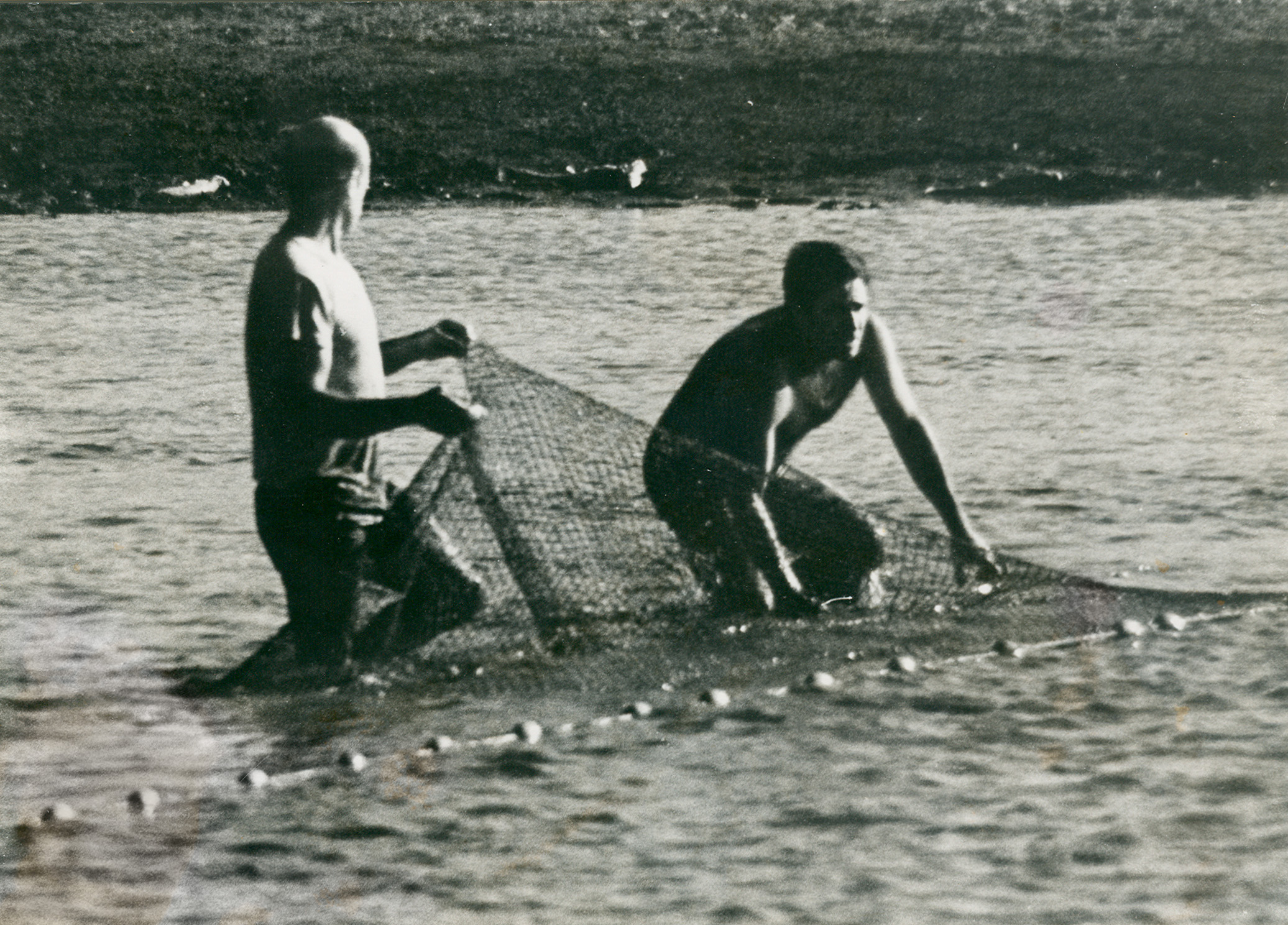 Animal Industries at Kibbutz Ramat Yohanan , Agriculture in Israel